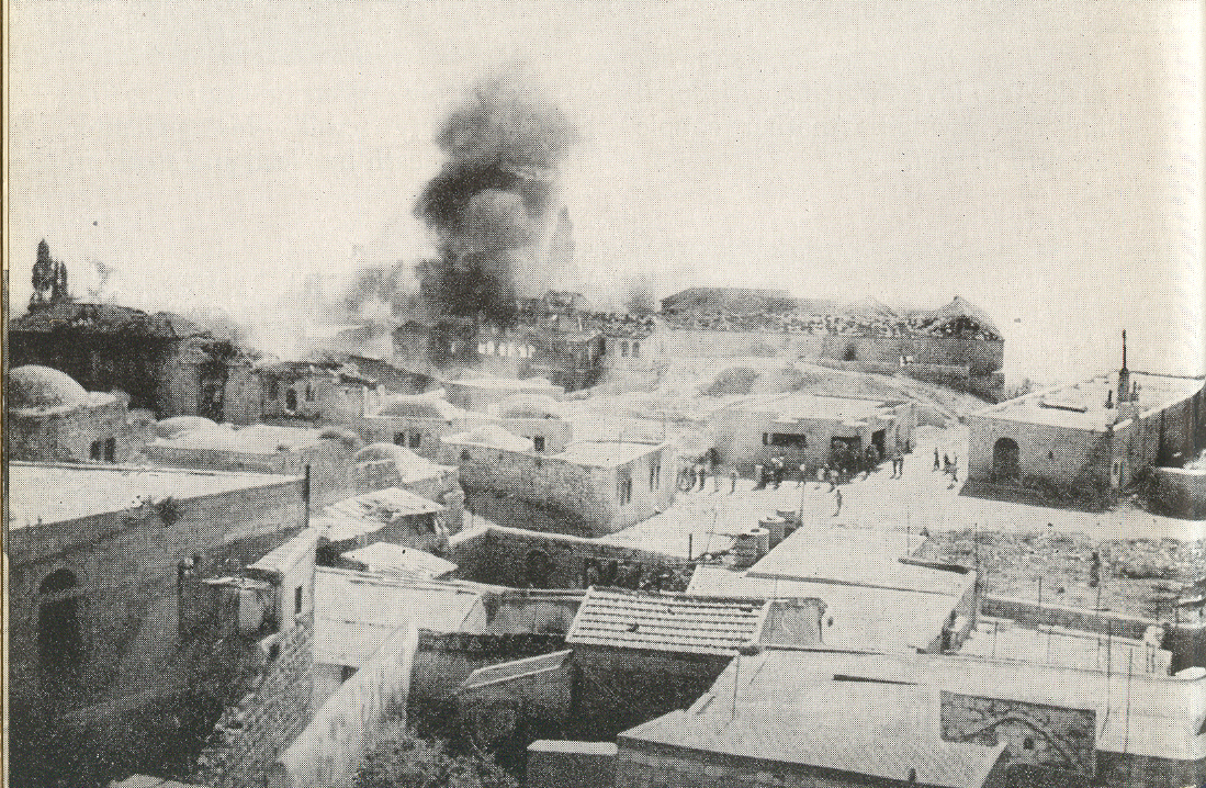 Jerusalem's Jewish Quarter on fire, May/June 1948